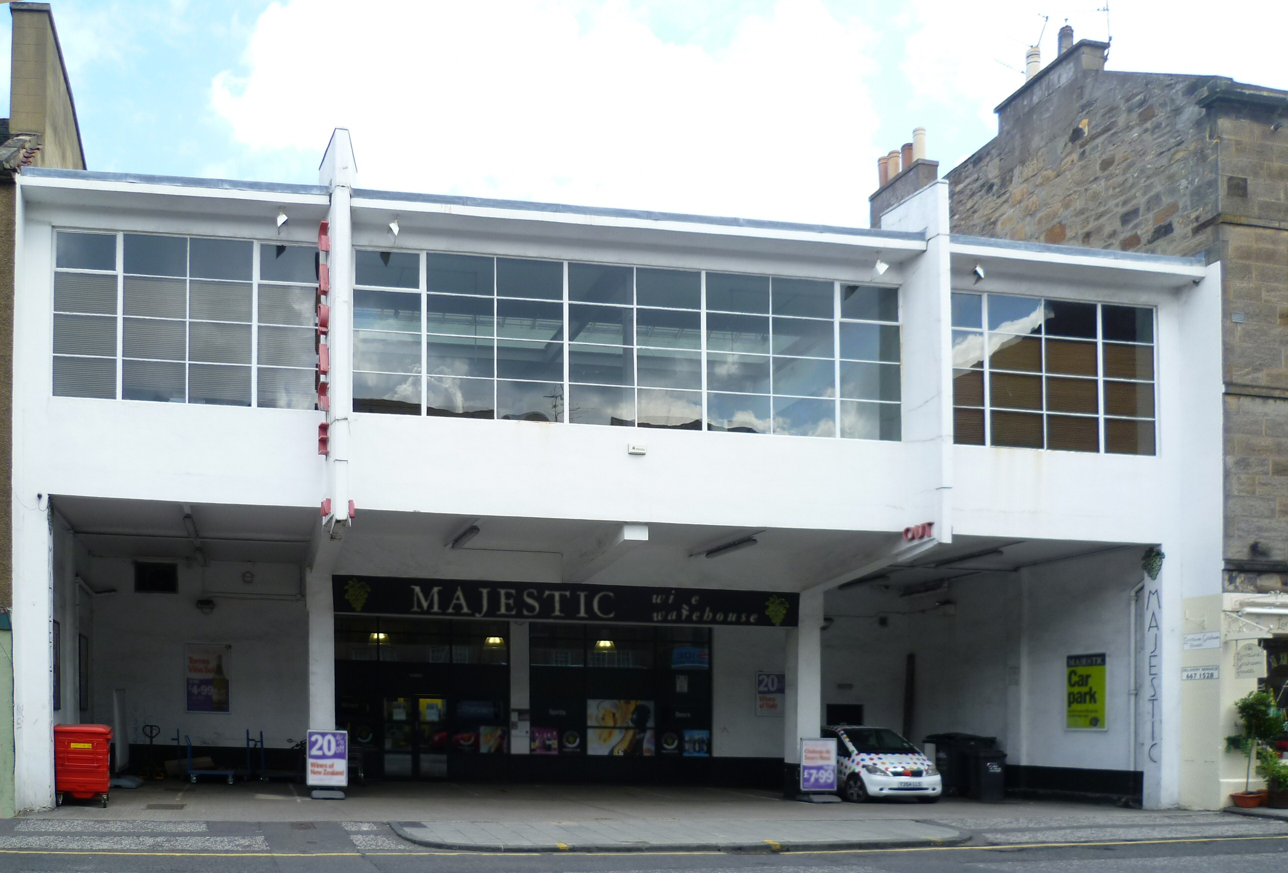 A 1933 garage designed in the art deco style by the young Basil Spence. It remained a garage until the 1990s, but is now a wine warehouse.